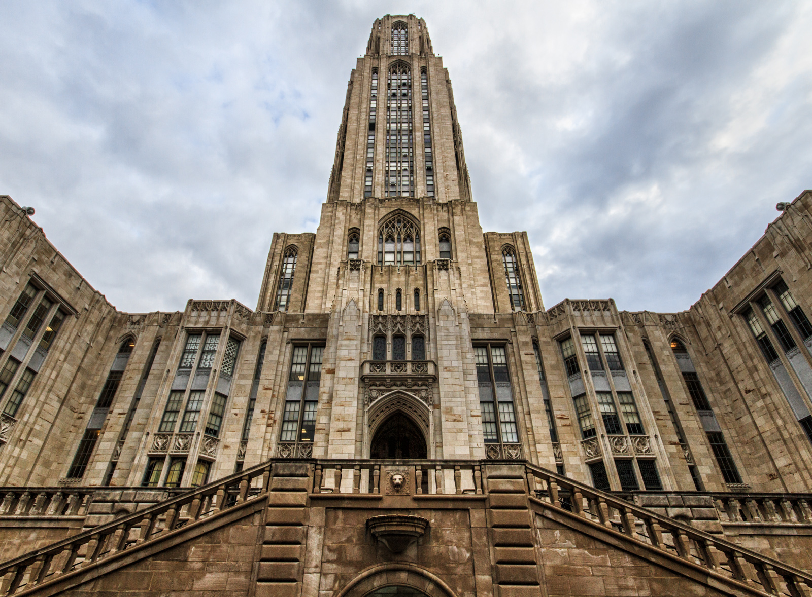 Listed in the National Register of Historic Places, Stands 535' Tall. The tallest educational building in the Western Hemisphere. Construction begain in 1926 and was opened for classes in 1931. Very cool building and a number POV's to shoot this from so I will be exploring it further in future visits.